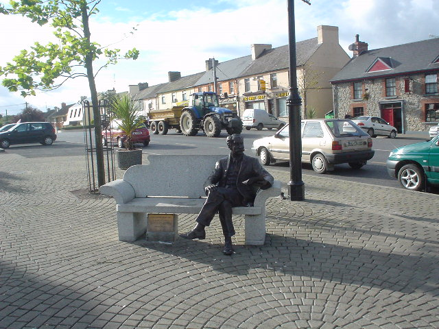 Statue of Percy French in the Town Square of Ballyjamesduff. This statue is to celebrate Percy French an engineer who worked in Cavan.He was a Poet, Painter and entertainer who composed many Irish songs. Most famous of all is "Come Back Paddy Reilly to Ballyjamesduff".